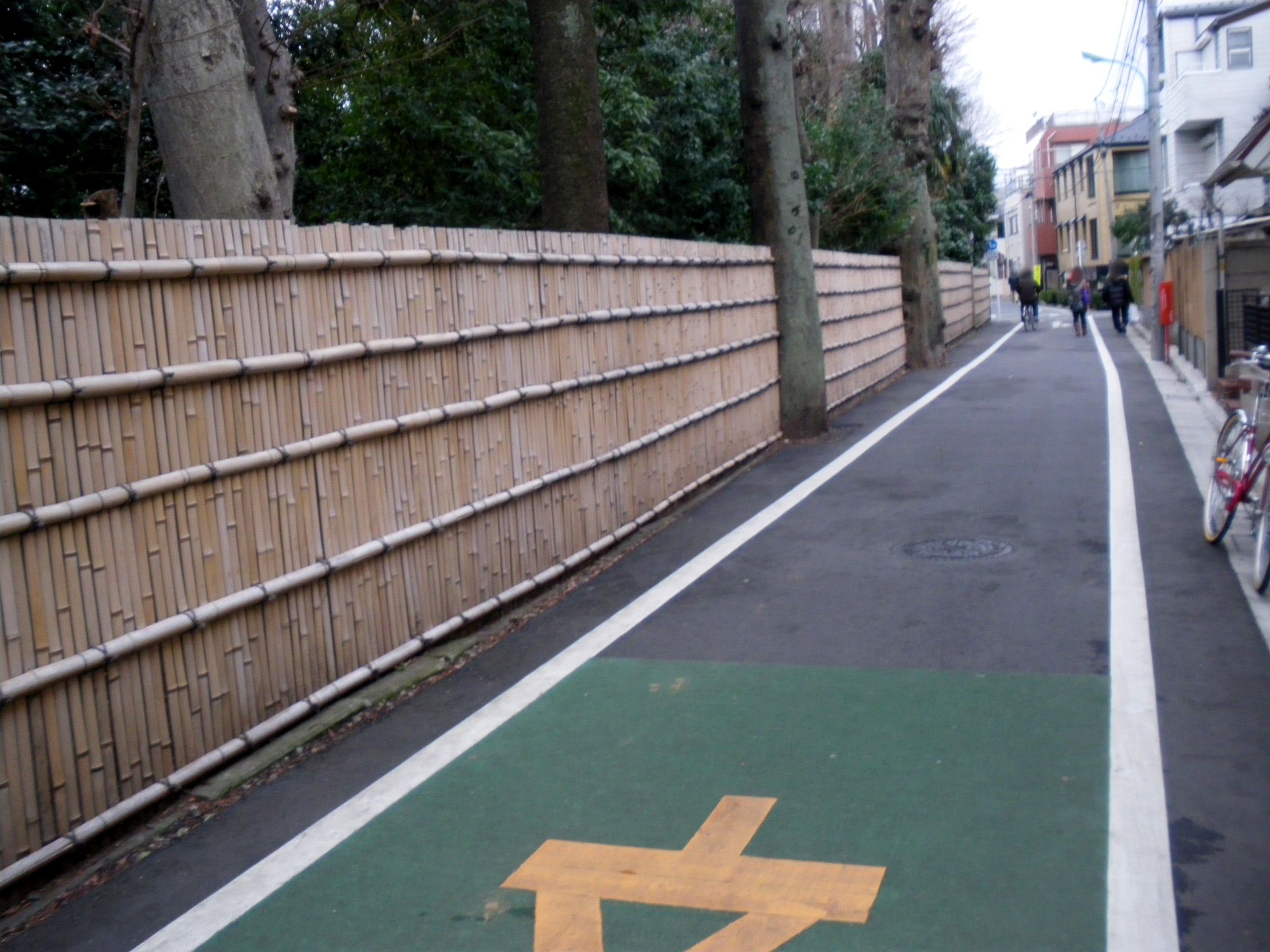 A photo of the birthplace of Japanese children's song"Takibi" Kamitakada,Nakano-ku,Tokyo.